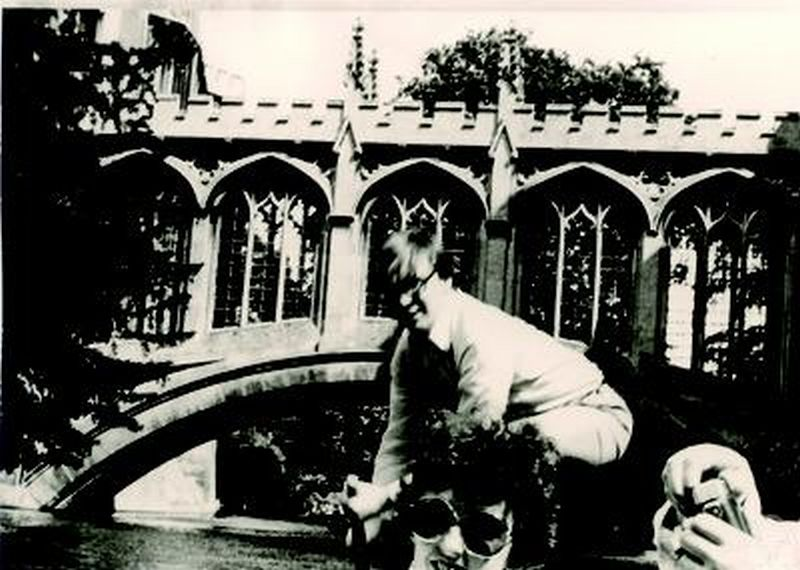 Peter Johnstone, Cambridge 1978